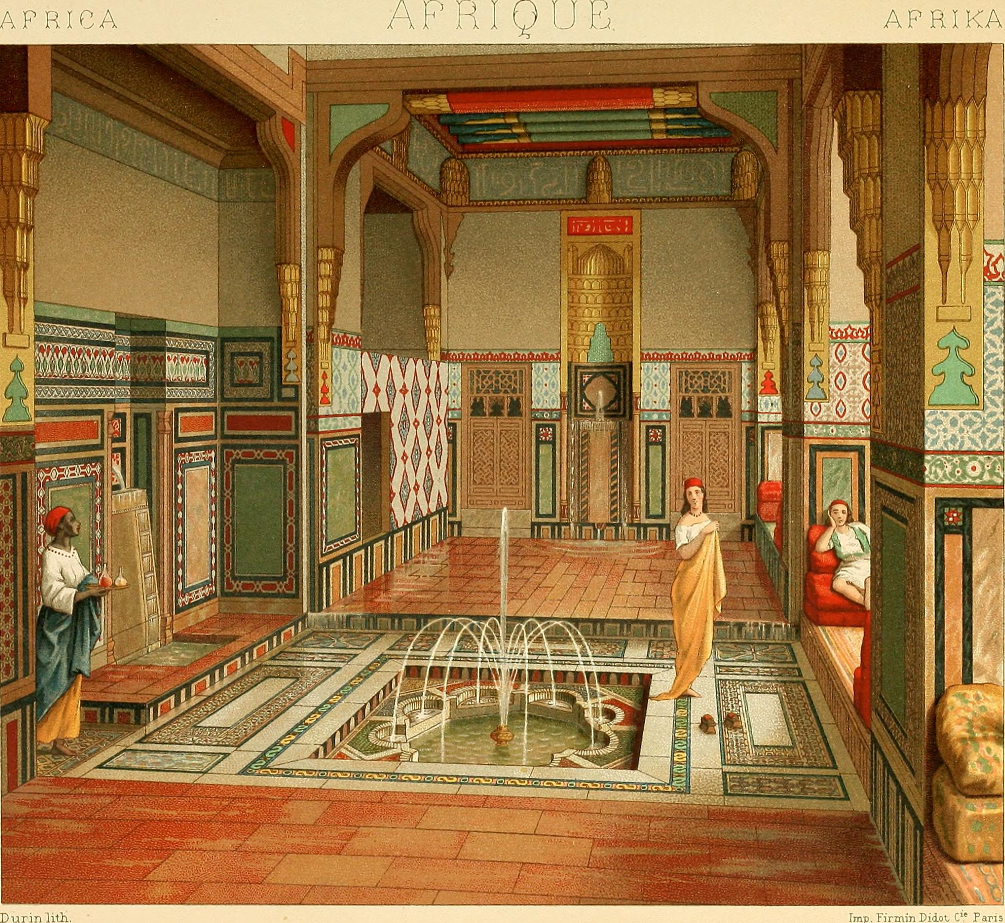 Title: Le costume historique. Cinq cents planches, trois cents en couleurs, or et argent, deux cents en camaieu. Types principaux du vêtement et de la parure, rapprochés de ceux de l'intérieur de l'habitation dans tous les temps et chez tous les peuples, avec de nombreux détails sur le mobilier, les armes, les objets usuels, les moyens de transport, etc Year: 1888 (1880s) Authors: Racinet, A. (Auguste), 1825-1893 Subjects: Costume Costume Publisher: Paris, Firmin-Didot et cie Text Appearing Before Image: les du Sahara, notamment à Biskra.Mouchoh- doré retenant un voile de mousseline blan-che qui les drape par derrière ; énormes tresses delaine nohe simulant les cheveux; grands anneauxdargent passés dans ces tresses ; robe attachée avecdes broches et des chaînettes dargent ; ceinture delaine; colliers dambre et de corail; au poignet età la cheville, des anneaux en argent et des braceletsde verroteiie. N 8. Femme kabyle parée de ses bijoux et portant le cos-tume de la montagne. Ichaoun, coiflîure, ornée du thaceid, diadème en argentgarni démaux et de corail ; zcrouoïar, grands pen-dants doreilles;5antZo!jrœ à manches courtes; man-teau maintenu par les ibesimen, épingles à crochet ;colliers et bracelets. (Pour les détails de la bijouteriekabyle, voir la planche lEngrenage; Afrique.) Documetits phoiographiques. Voir pour le texte : général Damnas, le Grand Désert, 1861. — M. V. Largeau, le Saharaalgérien, Hachette, 1882. — M. P. Gaffarel, lAlgérie, Didot, 1883. Text Appearing After Image: AFRIQUE INTERIEUR DE LHABITATION RICHE AIT CAIRE LE SALON DE FRilCHETTE OU DETE